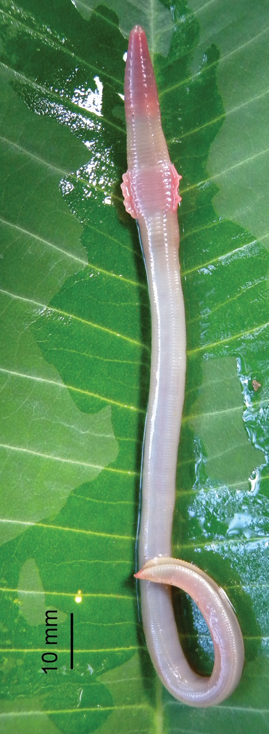 Habitus of Glyphidrilus Horst, 1889.